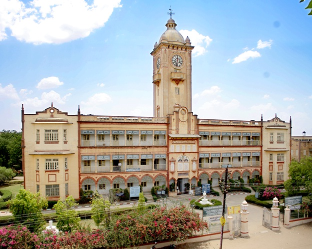 Podar college Nawalgarh main building.